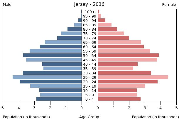 The population pyramid of Jersey illustrates the age and sex structure of population and may provide insights about political and social stability, as well as economic development. The population is distributed along the horizontal axis, with males shown on the left and females on the right. The male and female populations are broken down into 5-year age groups represented as horizontal bars along the vertical axis, with the youngest age groups at the bottom and the oldest at the top. The shape of the population pyramid gradually evolves over time based on fertility, mortality, and international migration trends.